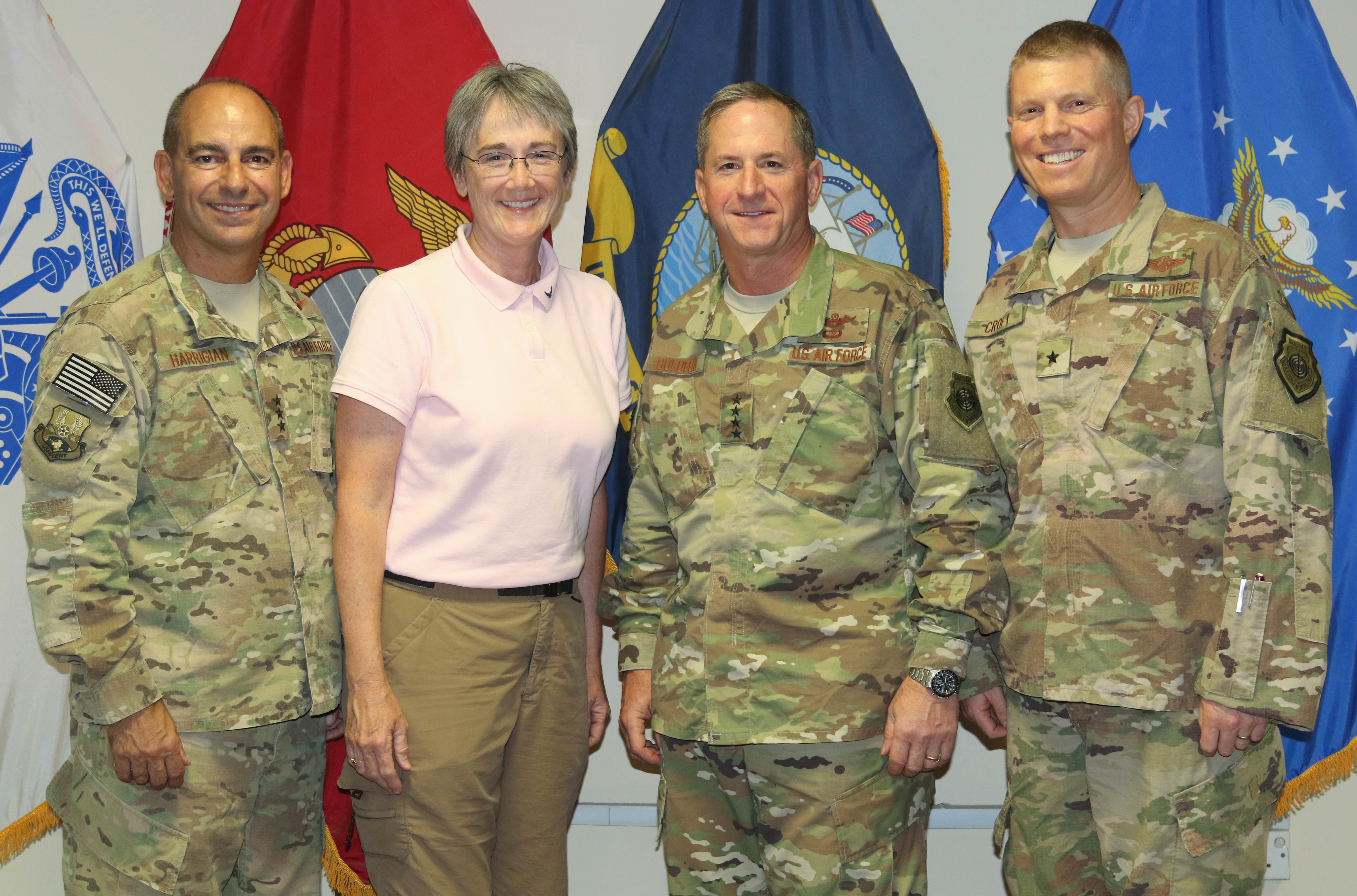 (From Left) Lt. Gen. Jeffrey L. Harrigian, U.S. Air Forces Central Command commander, Secretary of the Air Force Dr. Heather Wilson, Air Force Chief of Staff Gen. David L. Goldfein, and Brig. Gen. Andrew A. Croft, Deputy Commanding General – Air for Combined Forces Land Component Command – Operation Inherent Resolve, pose for a group photo in Baghdad, Iraq, Aug. 19, 2017. The visit was part of a battlefield circulation in Iraq to visit Airmen and observe the impact of air power at CJFLCC-OIR. (US Army Photo by Sgt. Von Marie Donato)